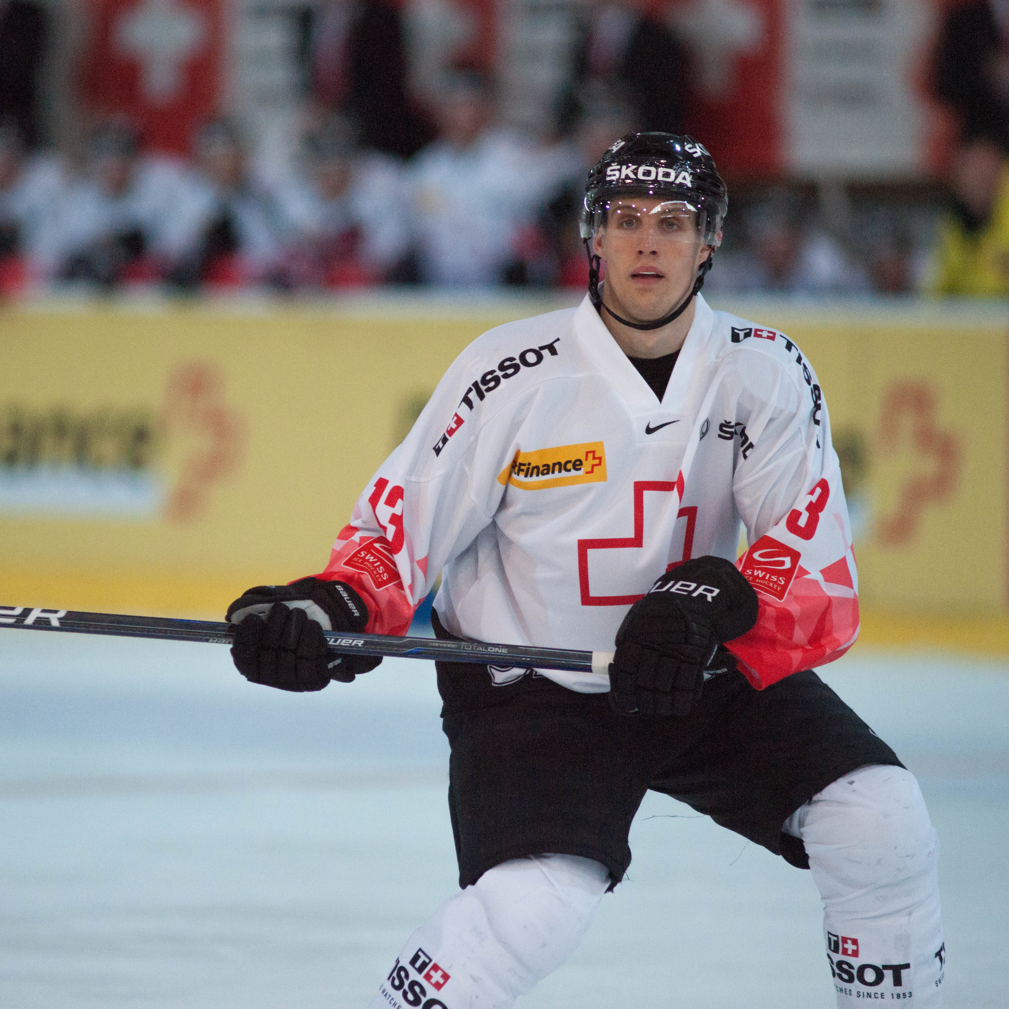 Switzerland vs. Canada, 29th April 2012